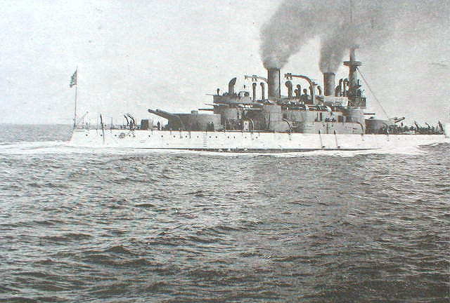 USS Massachusetts (BB-2) - a battleship of the U.S. Navy Removed caption read: FIRST-CLASS BATTLESHIP "MASSACHUSETTS." (Photographed at her fastest trial speed)